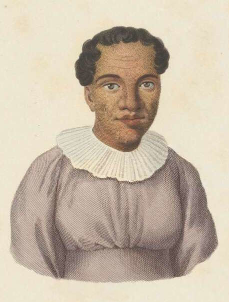 Teri’i Tari’a II Ari‘i-paea-vahine Pomare-vahine, Ari‘irahi of Huahine and Pare-Arue (1790-1858), commonly called Pomare-vahine or Ari'ipaea-vahine. Wife of King Pomare II of Tahiti and later Ari'ipaea. Regent for her step-son King Pomare III 1821 to 1827, eldest daughter of Tamatoa IV of Raiatea, along with her sister Teriitooterai Teremoemoe. Portraits of her and her sister were made in 1823 during the French expedition of Louis Isidore Duperrey on the La Coquille